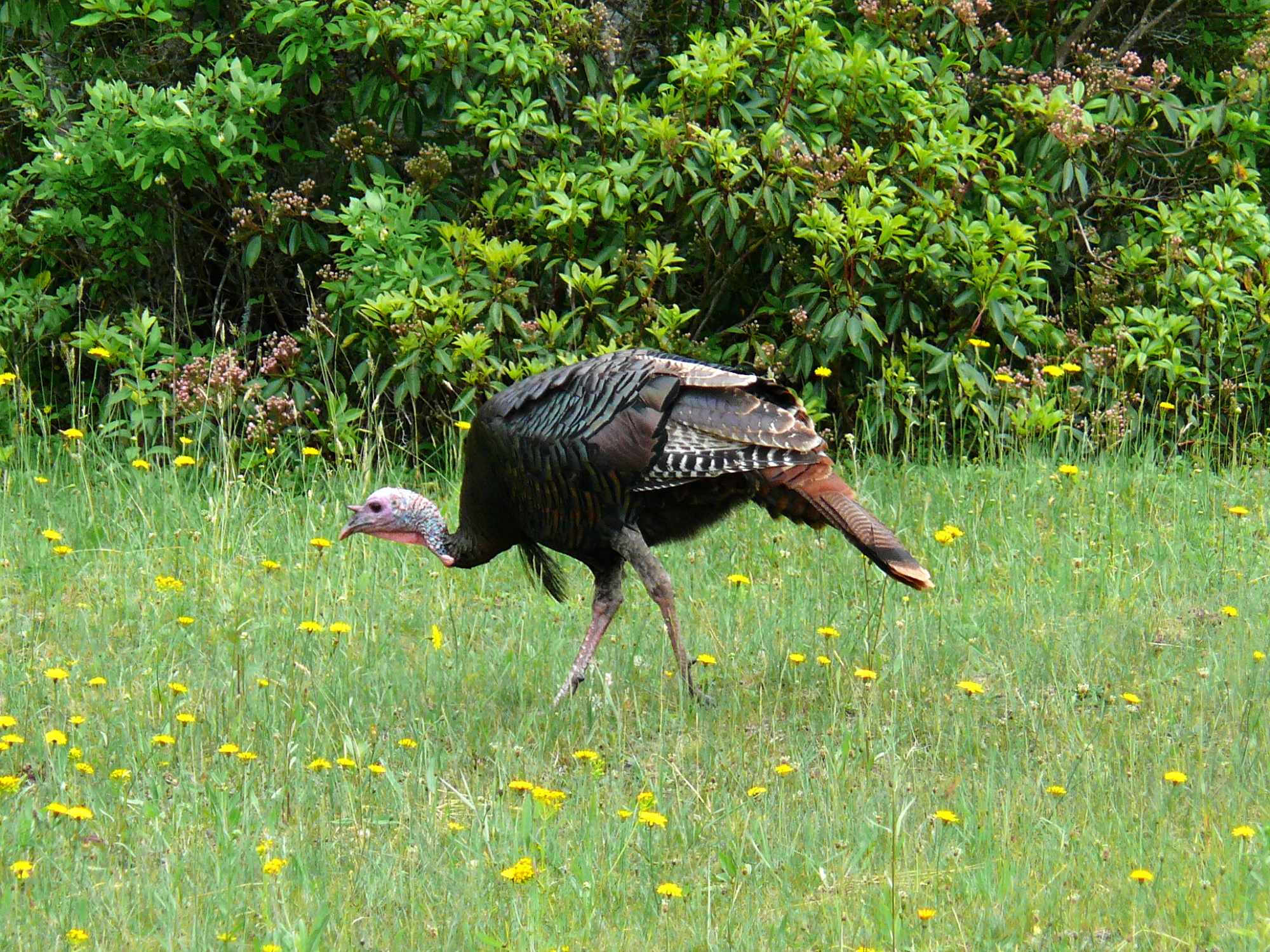 A male Eastern Wild Turkey (Meleagris gallopavo silvestris) feeding in an open field alongside the Blue Ridge Parkway near mile marker 313.Photo taken with a Panasonic Lumix DMC-FZ50 in Avery County, NC, USA.